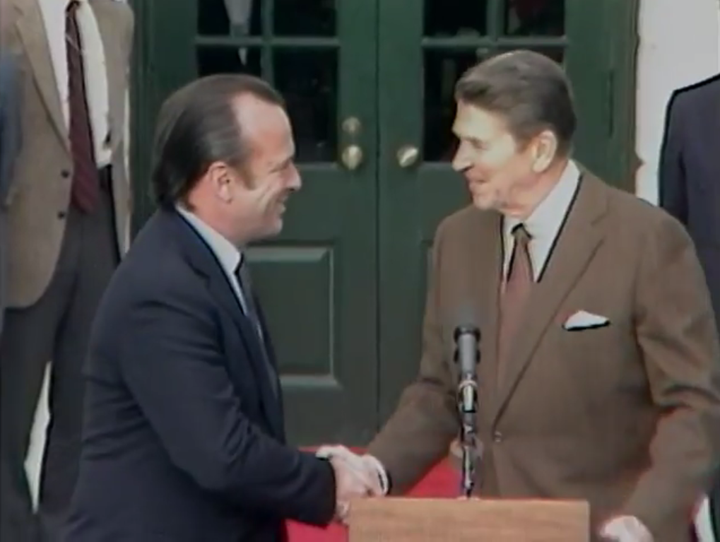 President Ronald Reagan and Prime Minister Francisco Pinto Balsemão shake hands during the Departure Remarks of the latter's visit to Washington DC. White House, South Lawn, December 15, 1982.